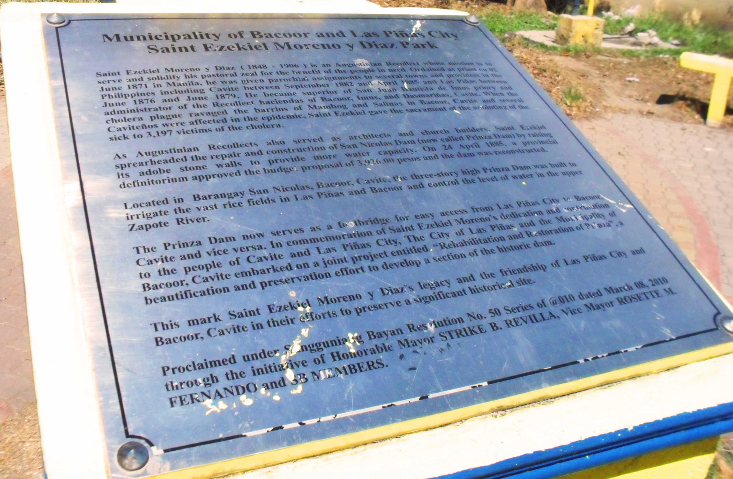 Proclaimed under SB Resolution No. 50 Series of 2010